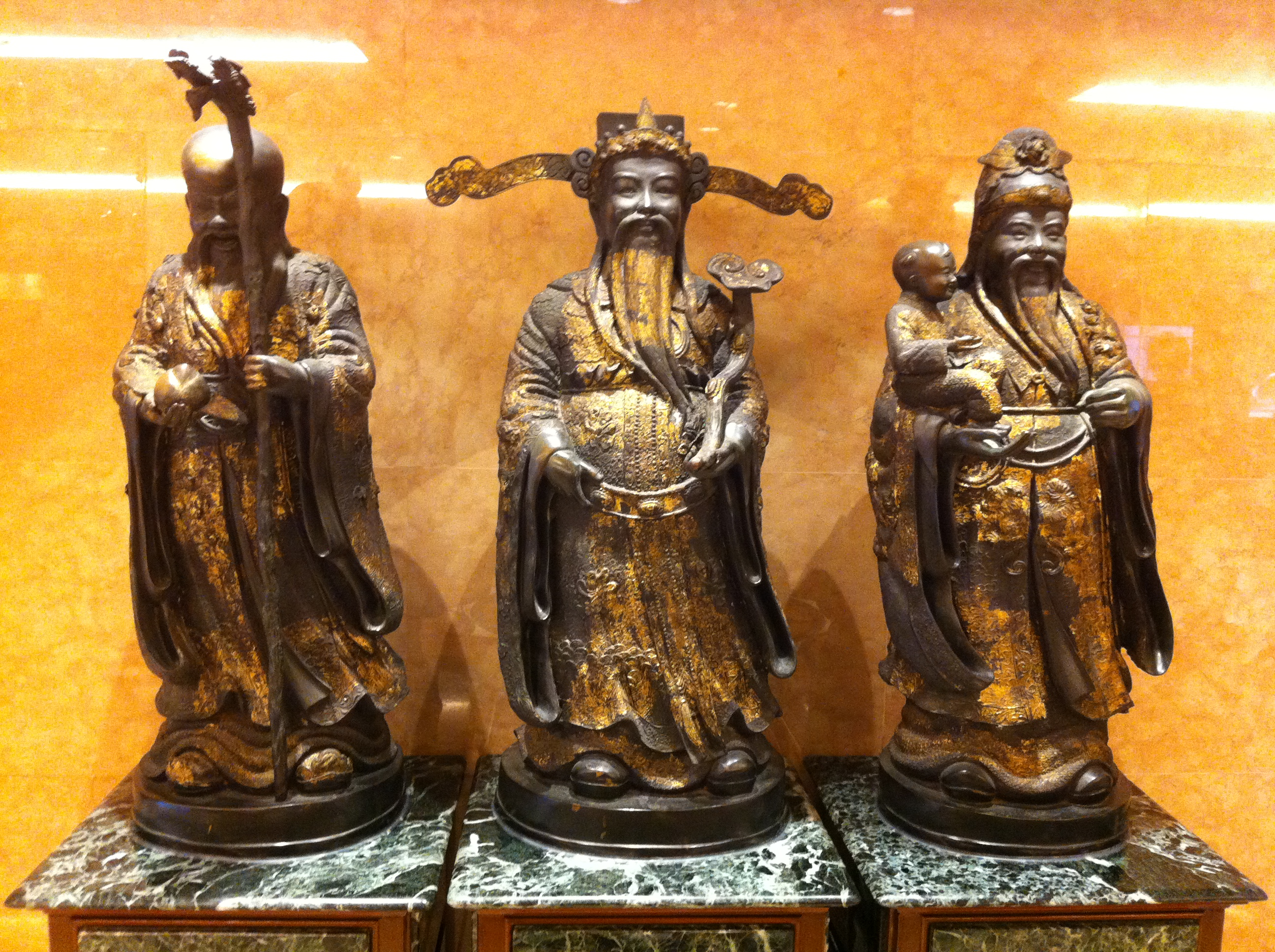 尖沙咀 中港城, 皇家太平洋酒店, China Hong Kong City, Canton Road, Tsim Sha Tsui, Hong Kong